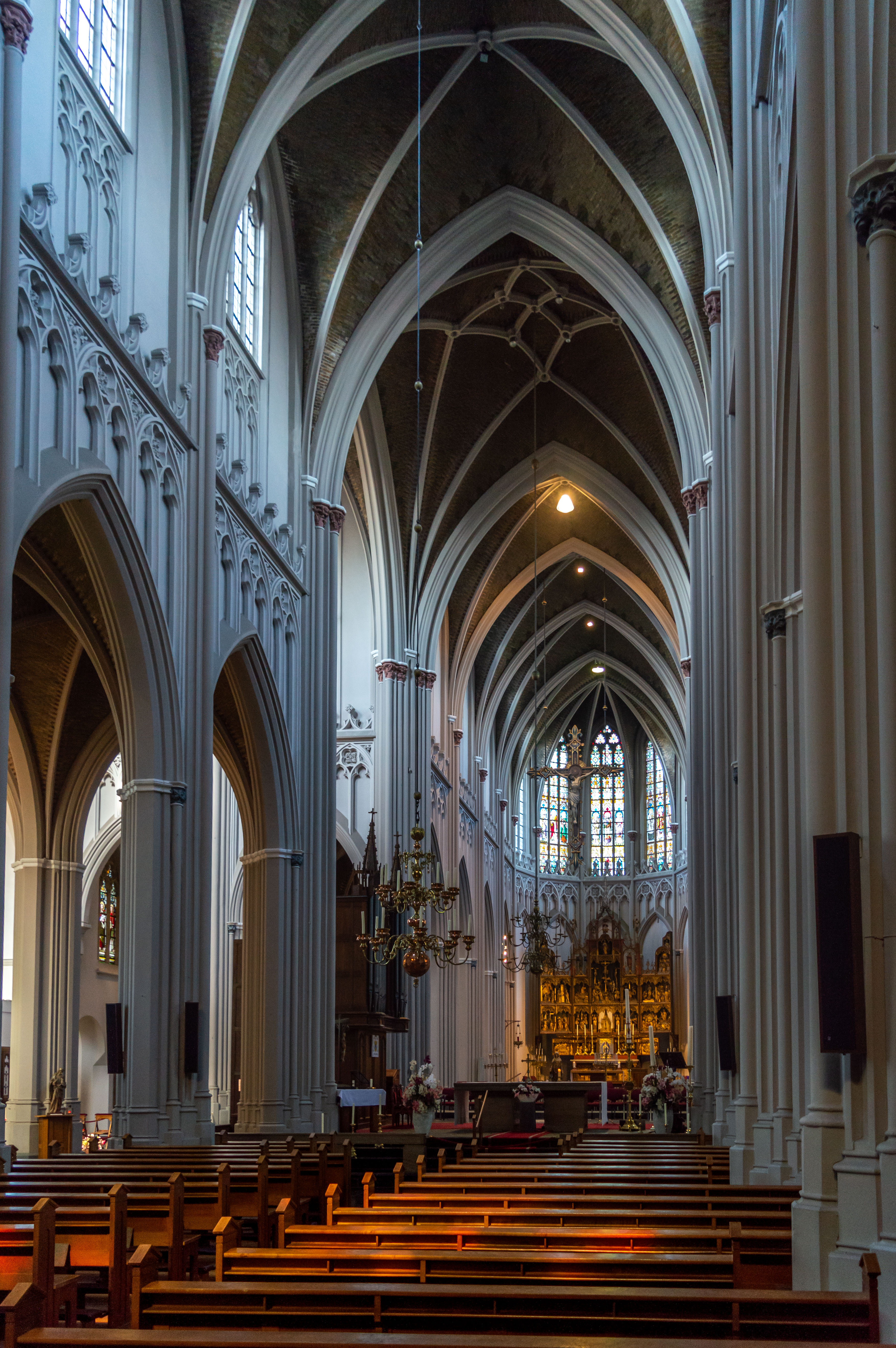 The interior of the Heuvelse kerk in Tilburg.